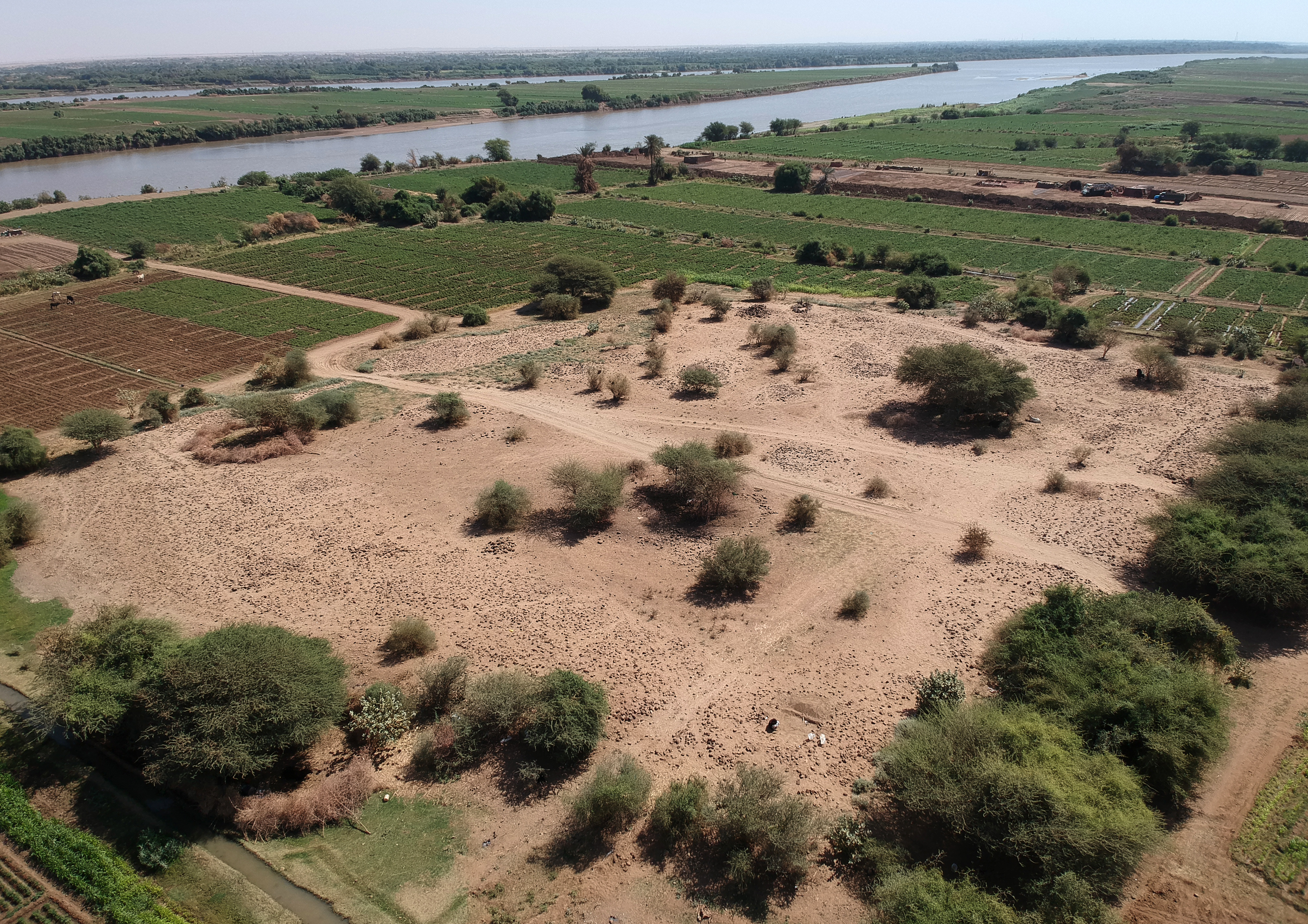 Abu Nafisa fort is surrounded by fields. It is badly preserved due to flooding of the Nile